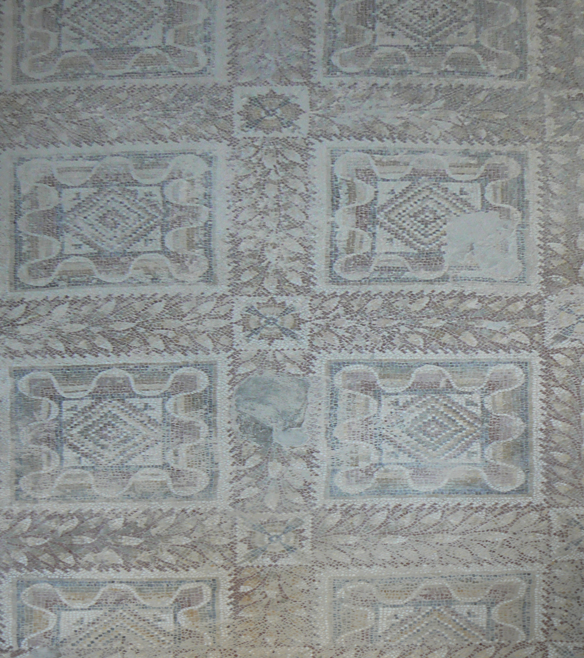 Roman mosaic